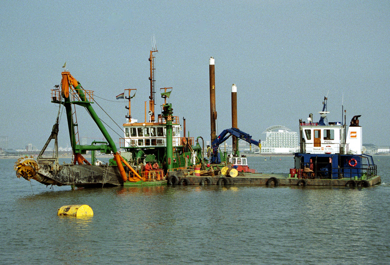 The boat brought in to dredge Cardiff Bay after the completion of the barrage.